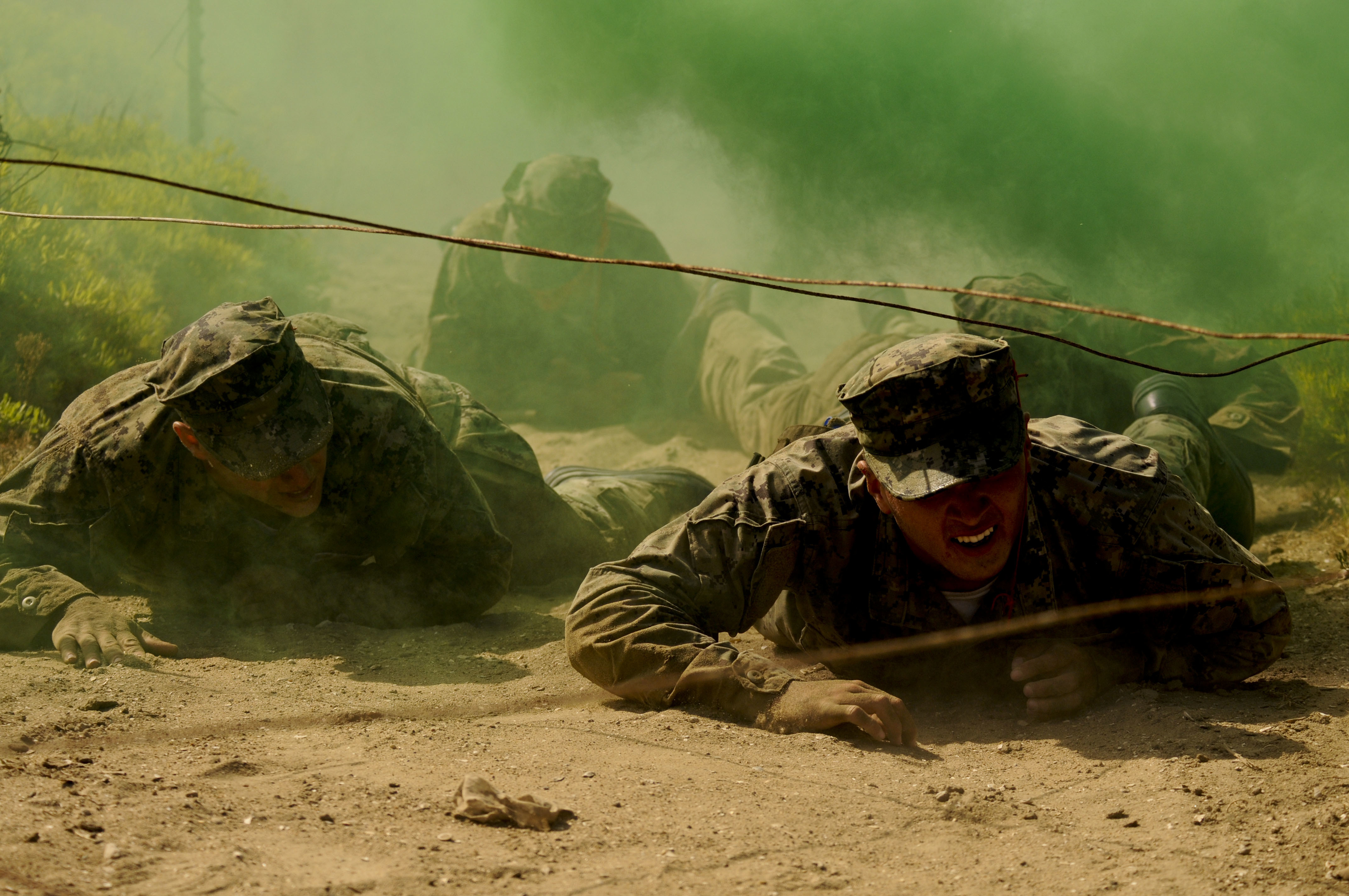 CORONADO, Calif. (June 1, 2020) Special Warfare combatant-craft crewman (SWCC) candidates from Basic Crewman Selection (BCS) Class 111 low-crawl under an obstacle during The Tour at Naval Special Warfare (NSW) Center in Coronado, Calif., June 1, 2020. The Tour is a 72-hour crucible event, which develops intelligent and highly-motivated candidates who will perform as a team under the most demanding conditions. NSW Center provides initial and advanced training to the Sailors who make up the Navy’s SEAL and Special Boat Teams. (U.S. Navy Photo by Mass Communication Specialist 1st Class Anthony W. Walker/Released) 200601-N-QC706-0179